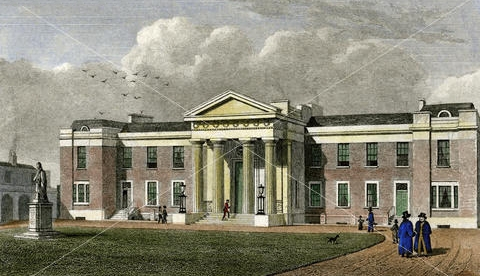 View of the Haberdashers' Houses, Hoxton.